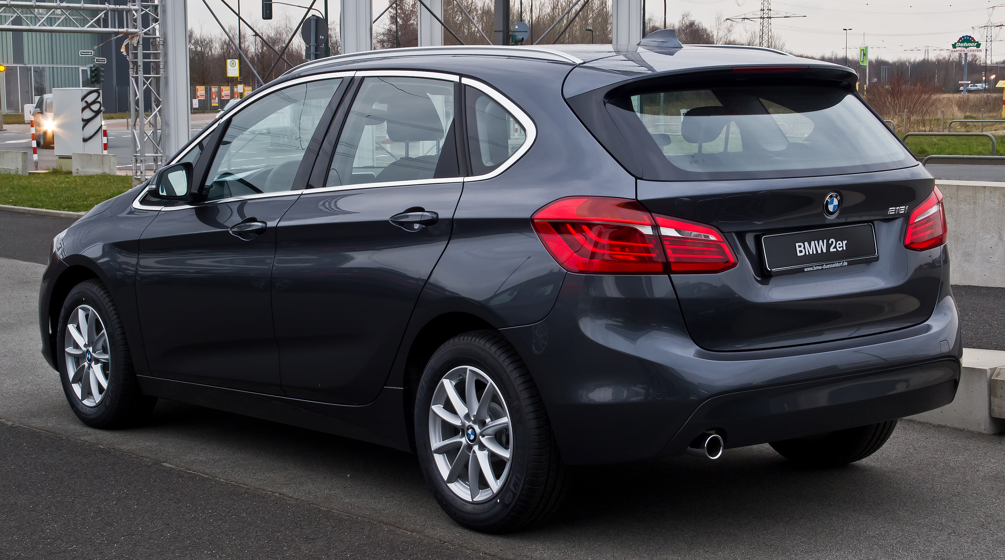 BMW 218i Active Tourer Advantage (F45)